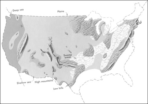 Generalized geographic map of the United States location in Middle Pennsylvanian time. During the Carboniferous period, the contrast in the distribution of land and water from the ancient past to the present becomes more dramatic. The map shows the outline of the United States as it looked during the Pennsylvanian Period some 300 million years ago. It gives the appearance of reversing present-day geography. A highland which lay to the east, south, and north supplied much of the sedimentary debris that was spread over the midwestern part of the United States. The Midwest was mainly a low swampy area in which scouring rushes and fern trees grew in profusion. Sediment was carried into the region from deltas to the east. From time to time, the level of the sea fluctuated -- possibly because of glacial conditions in the Southern Hemisphere. Swamps were flooded, and forests were destroyed. Slowly, layers rich in tree stumps, spores, branches, and leaves were deposited. Later, heat and pressure changed these layers into the coal beds that are so extensive in Illinois, Kentucky, Pennsylvania, West Virginia, and Tennessee. To the west, marine limestones, sandstones, and shales accumulated in shallow seas whose vast expanses were dotted with shoals and islands. Some of the very large islands were formed by the buckling and uplifting of parts of the Earth's crust.